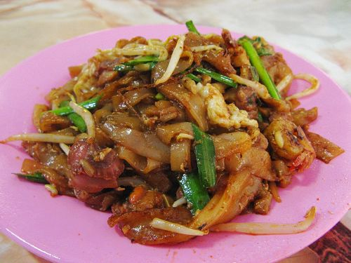 "char" means fried in hokkien. Popular dish in Malaysia